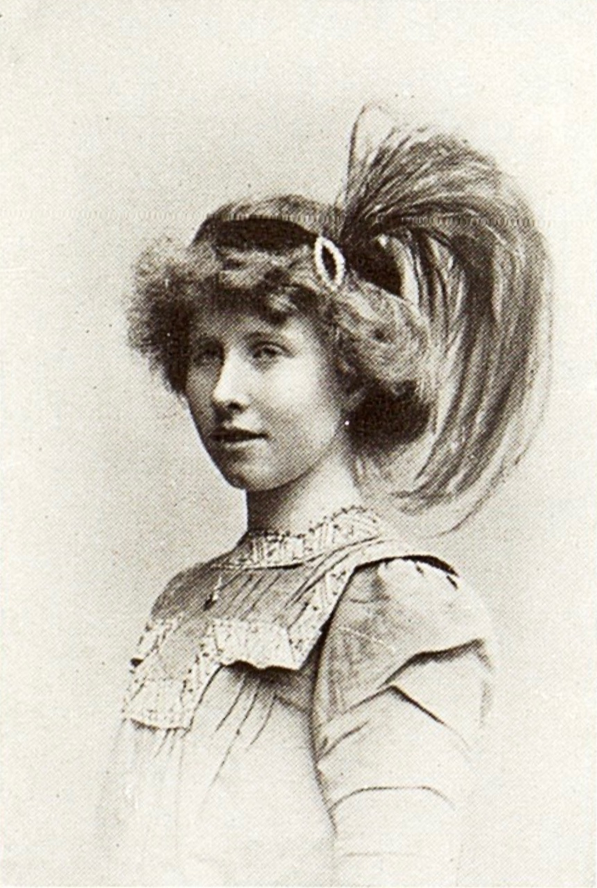 Swedish woman with plume